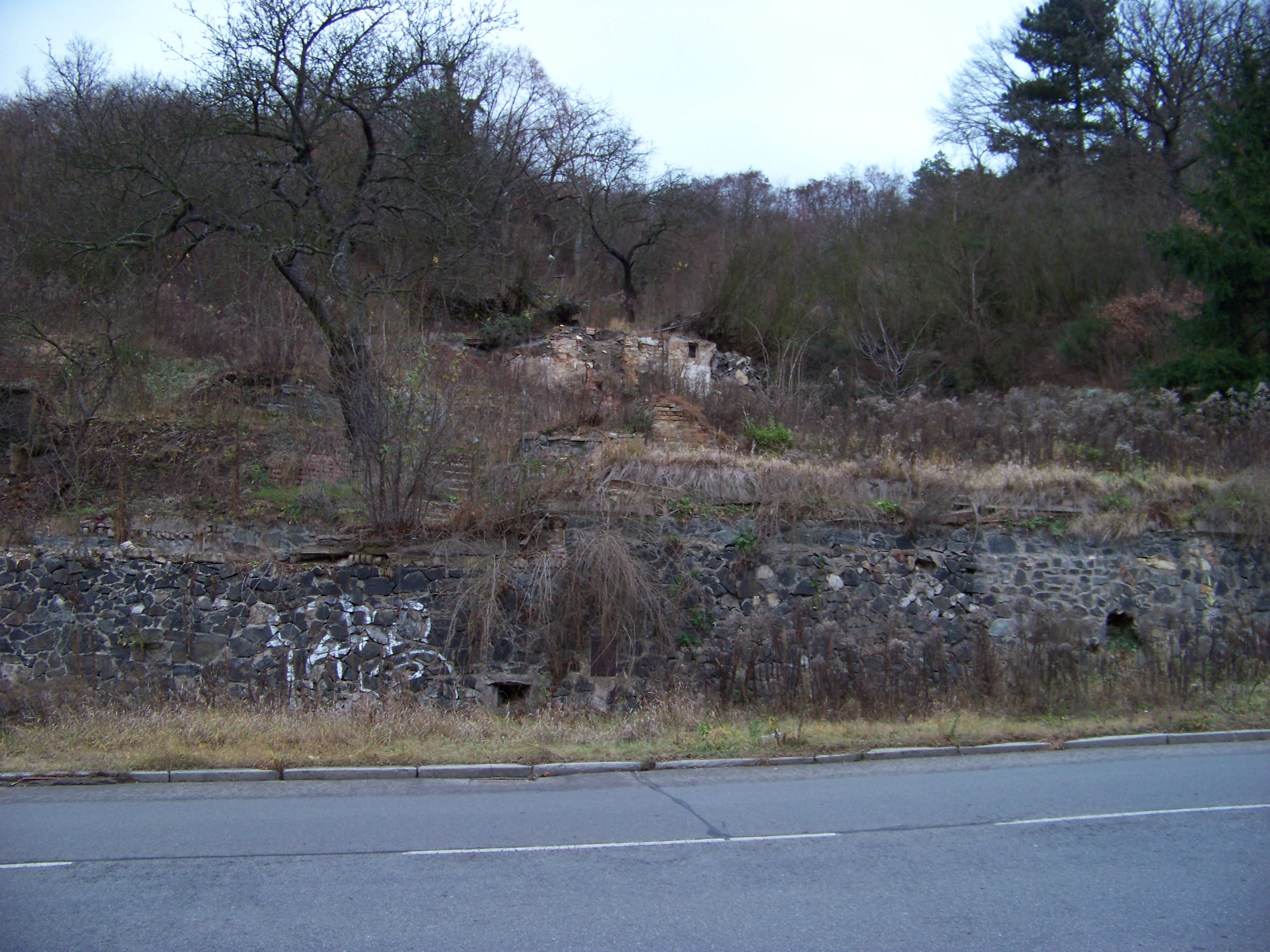 Prague-Košíře, the Czech Republic. Jinonická 766/17, remains of Borínka estate.